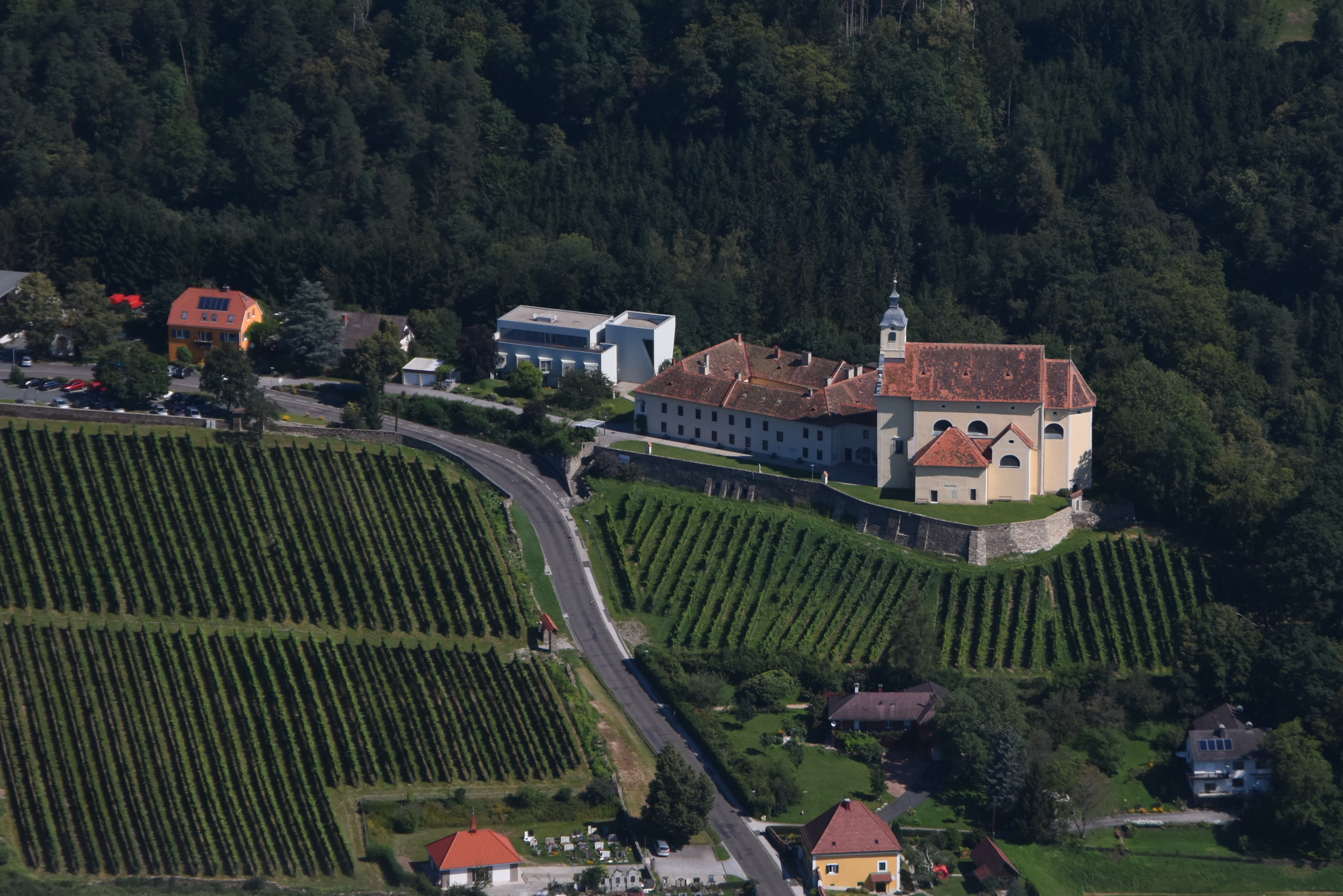 Sankt Johann bei Herberstein